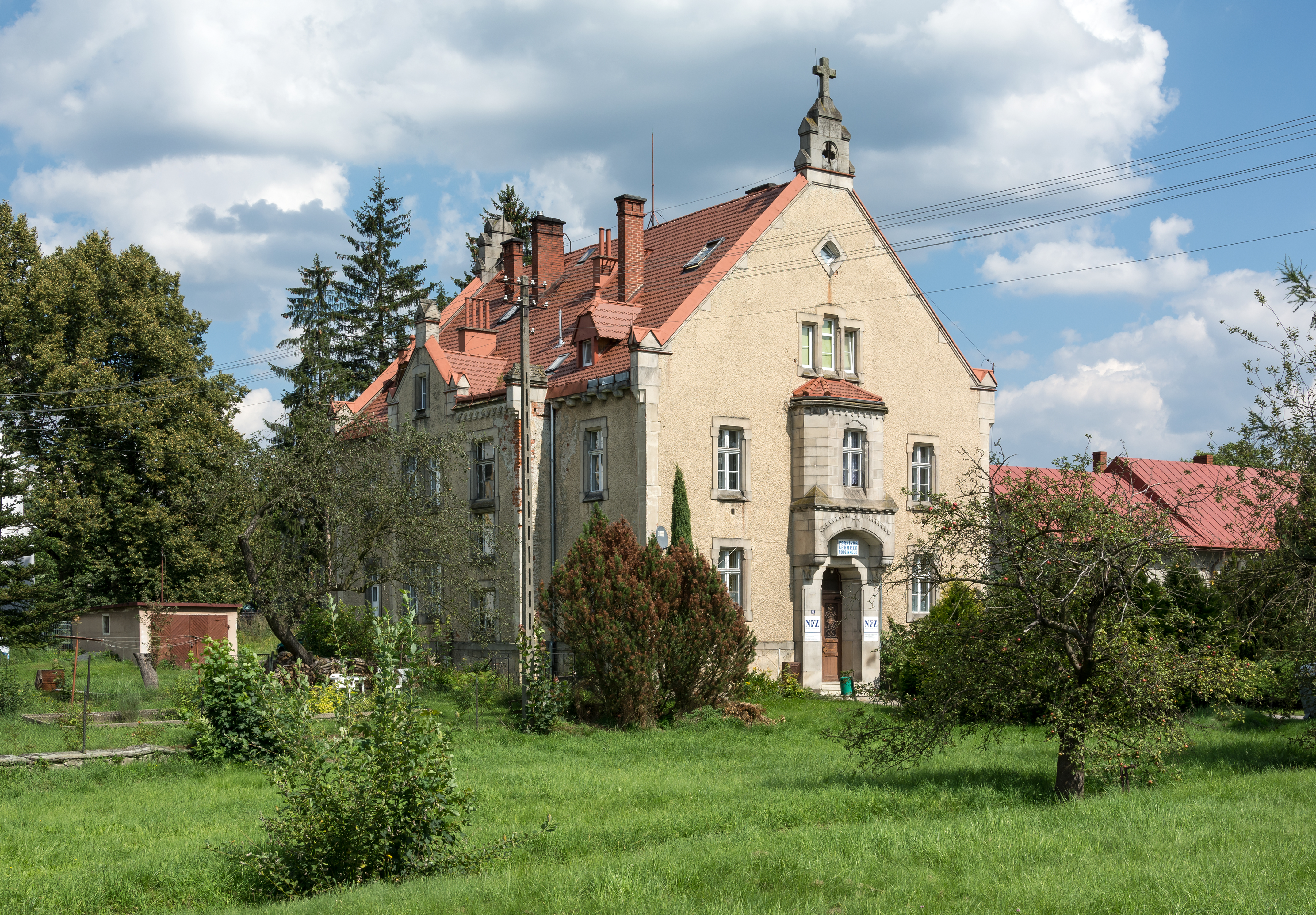 Health center in Ołdrzychowice Kłodzkie